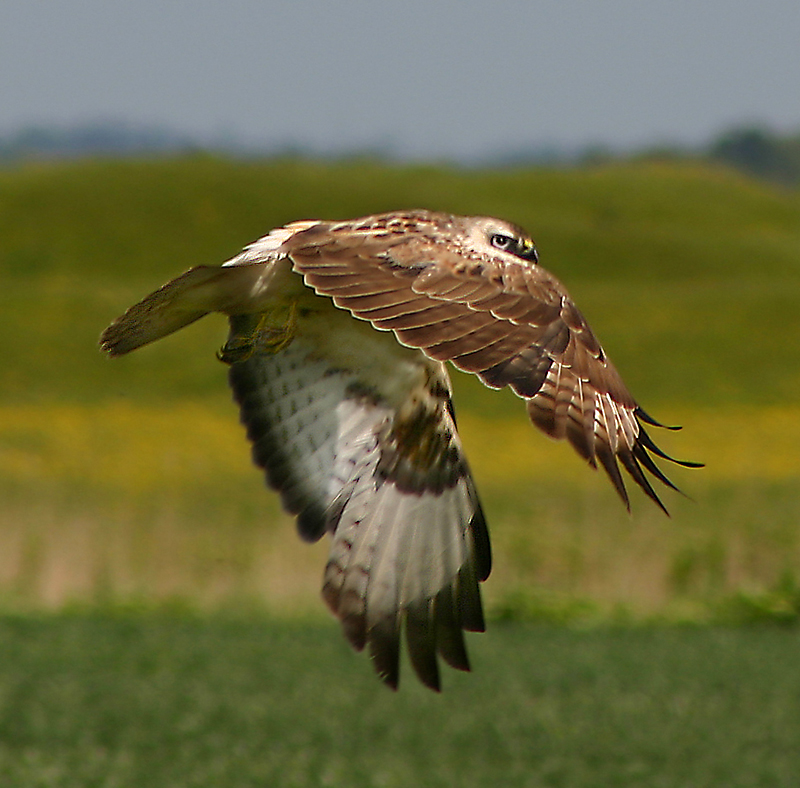 Common buzzard (Buteo buteo) at Møgeltønder Kog, Denmark